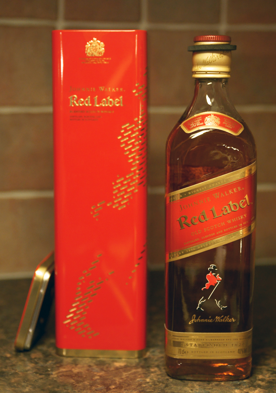 Johnnie Walker Red Label -whiskey.